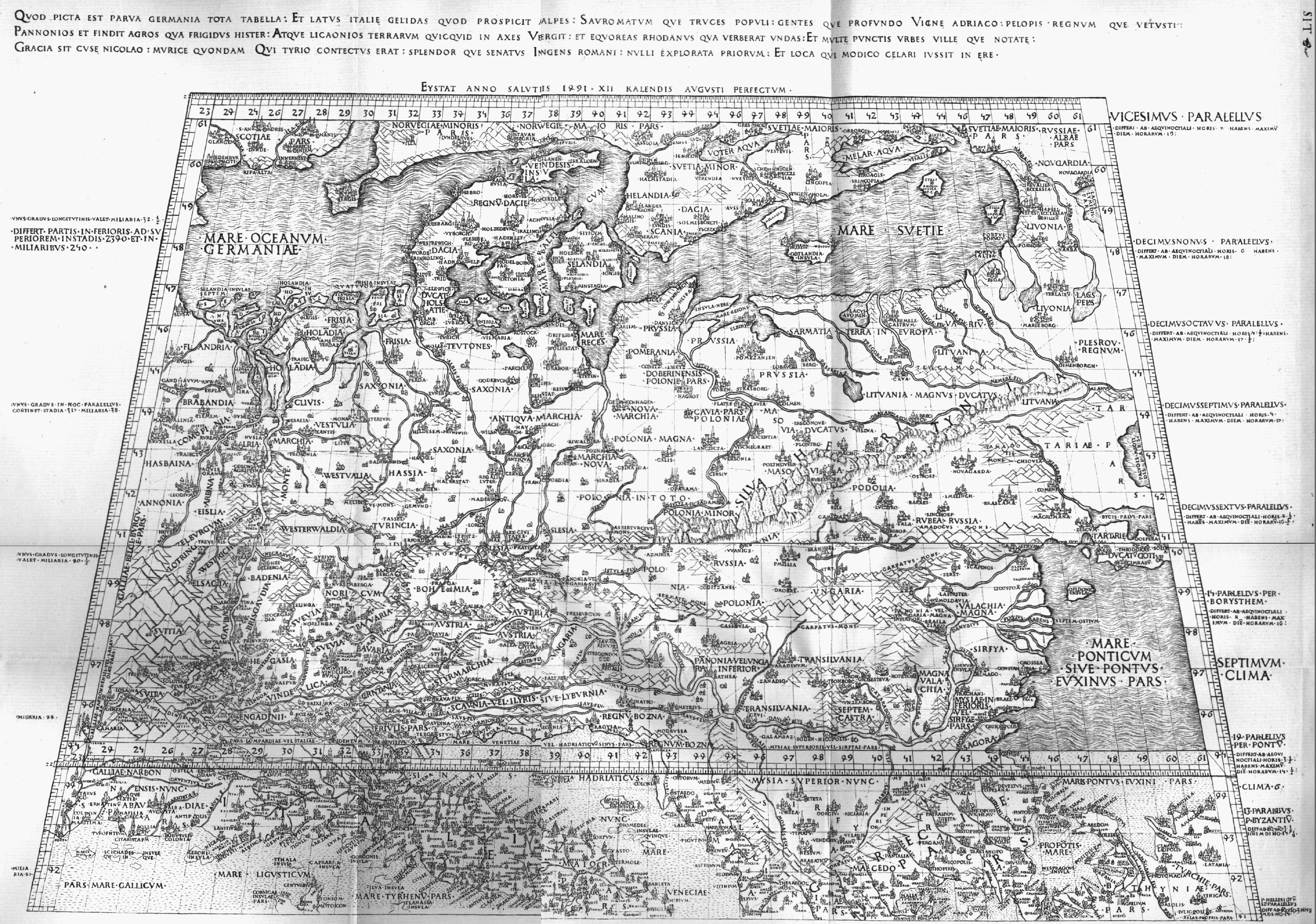 The Fourth European Map, depicting Greater Germany, from Ptolemy's Geography. Constructed in 1450, engraved in 1491.